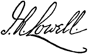 Signature of U.S. poet James Russell Lowell